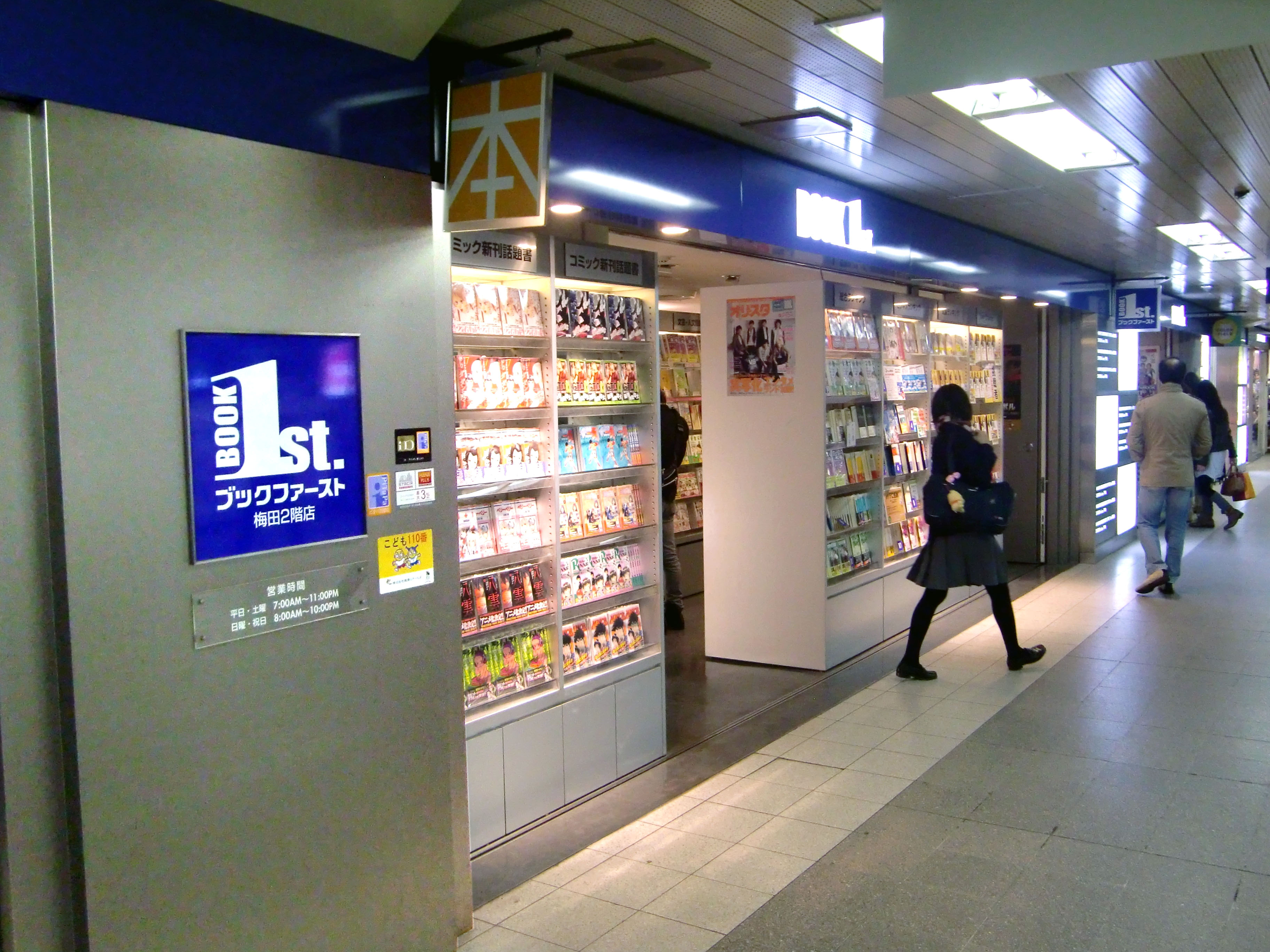 Book 1st. The 2nd floor in Umeda shop, Hankyu Railway Umeda Station 2F (Signboard of train.)